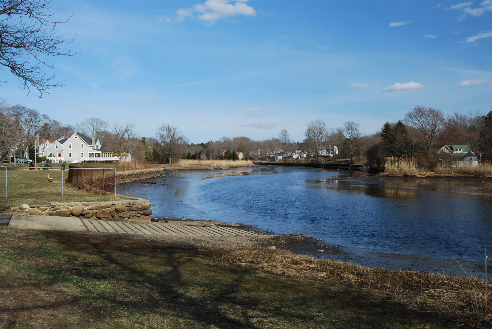 View of Assonet River at the upper end of Assonet Bay, Freetown, Massachusetts